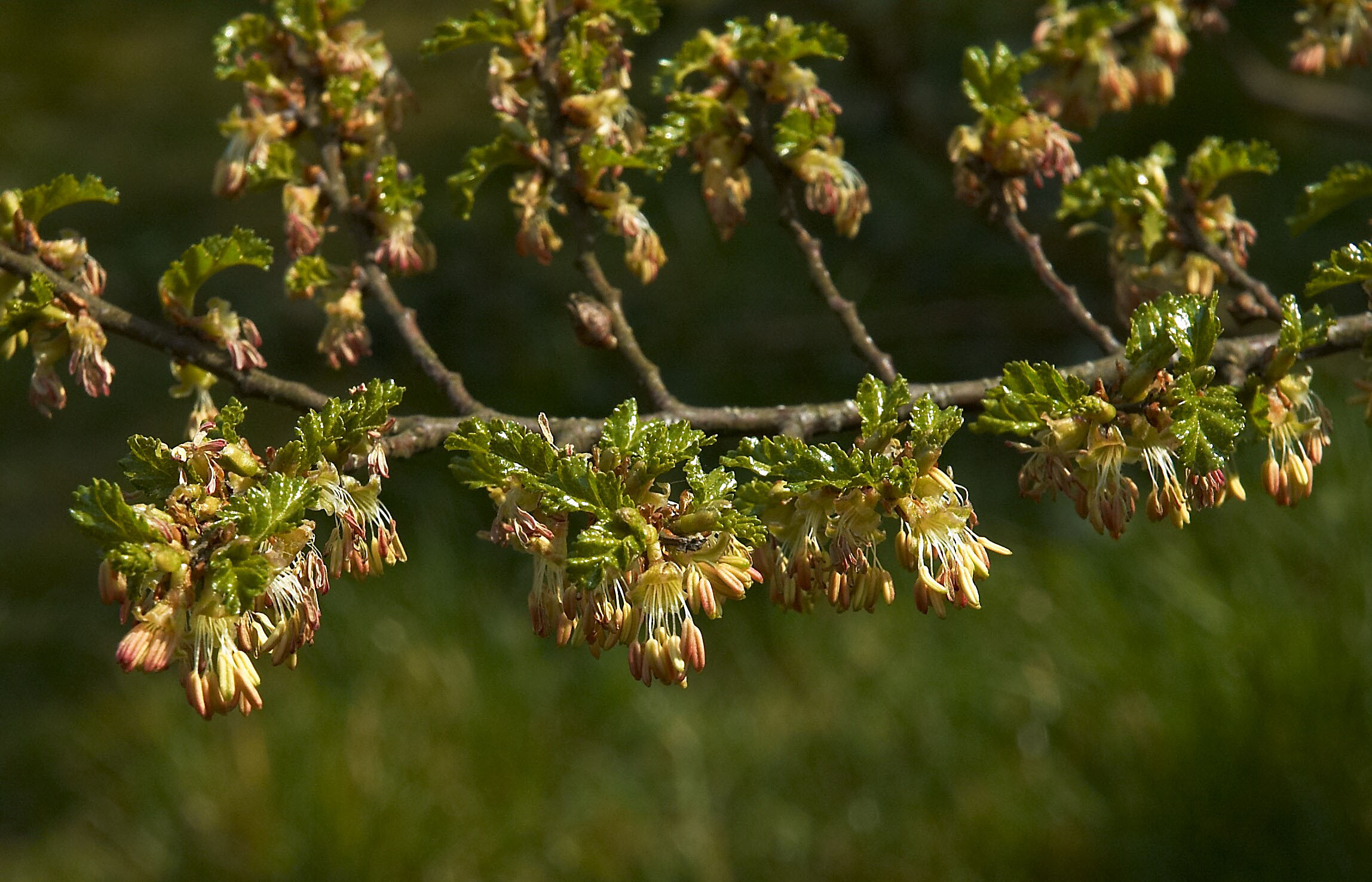 Antarctic Beech. Flowering.